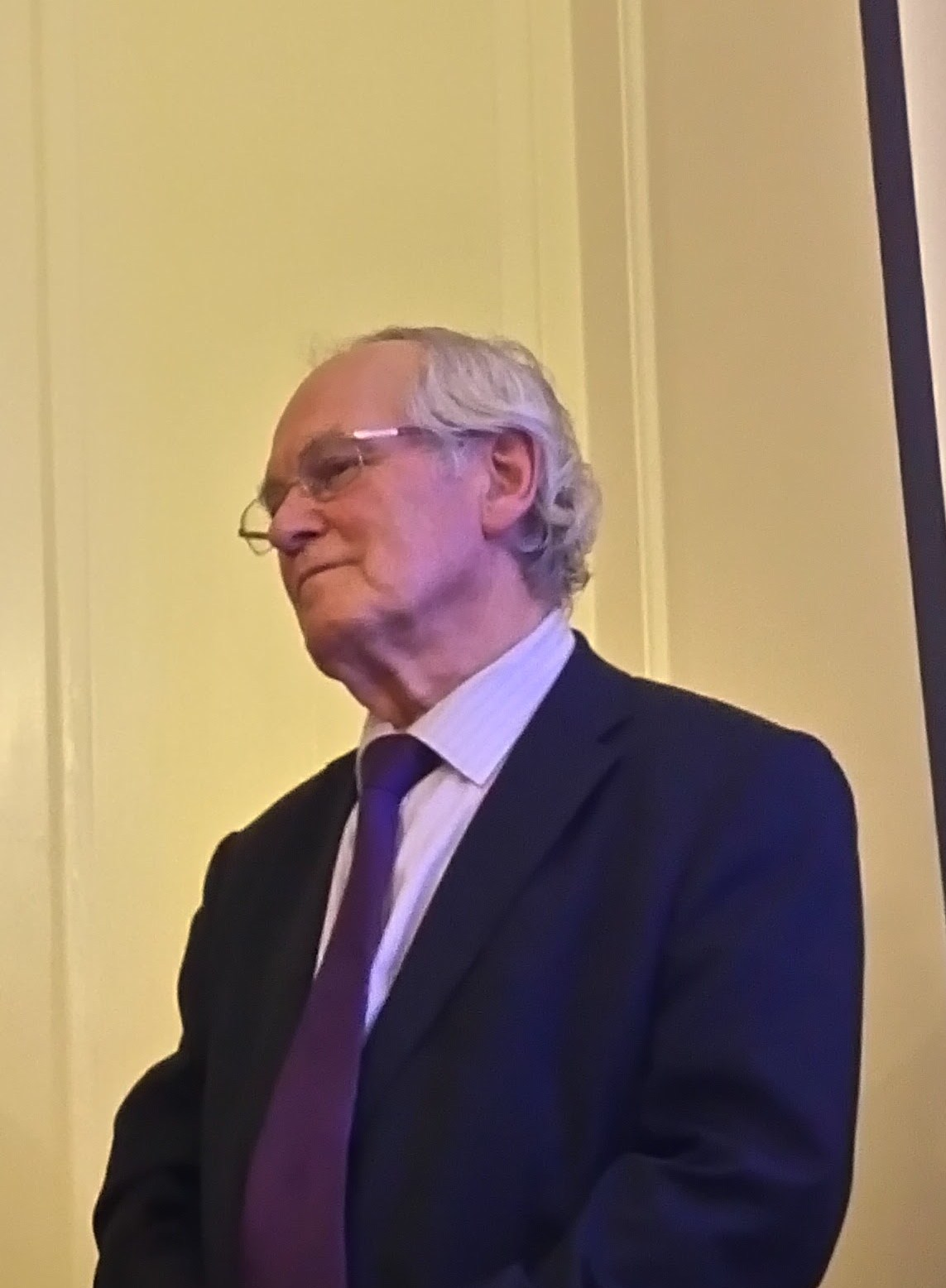 John Burland gives a lecture in Cambridge University, 20 January 2016